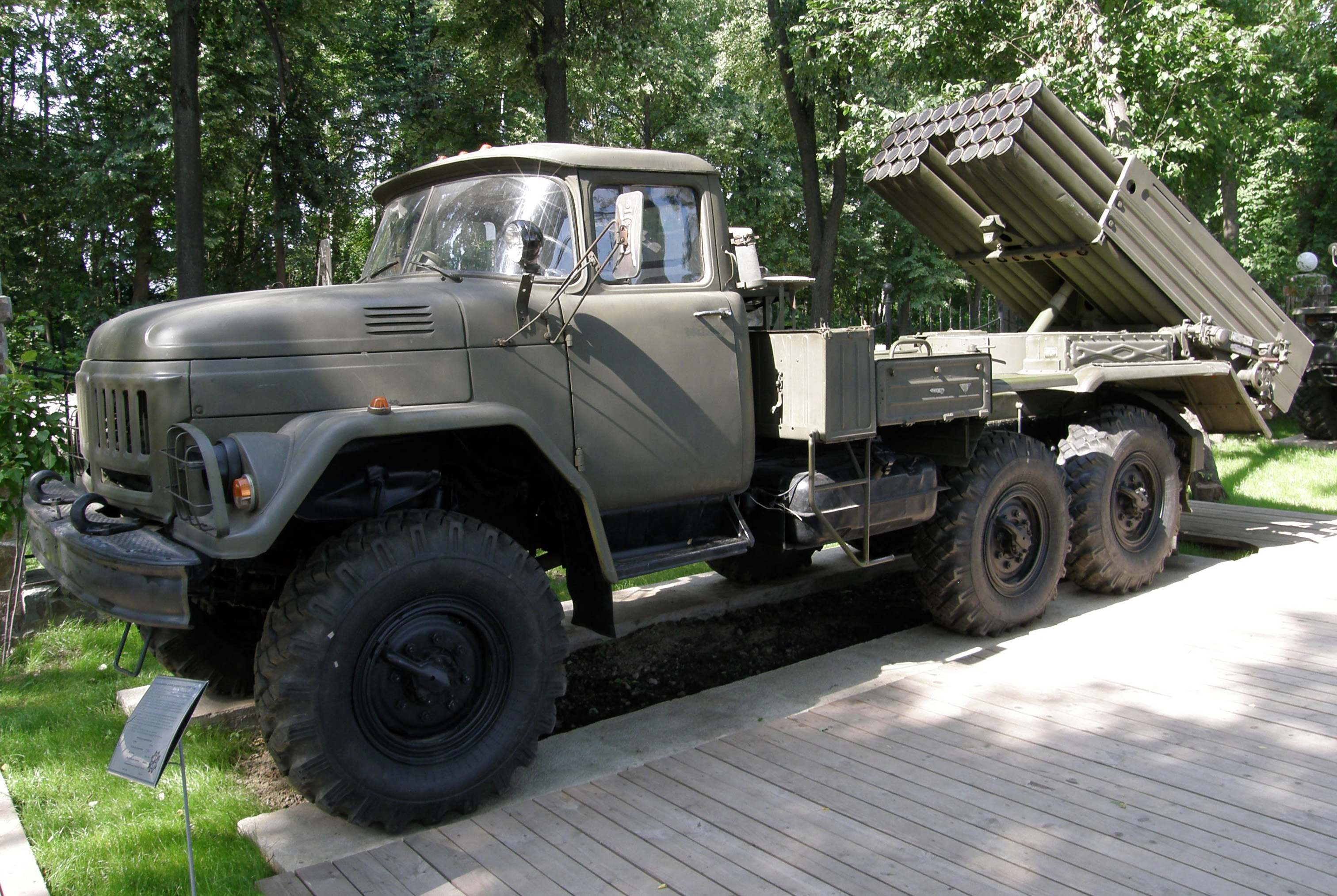 9P138 "Grad-1": lighter 36-round version, mounted on a six-by-six ZIL-131 chassis. The vehicle with supporting equipment (rockets, transporter 9T450 and re-supply truck 9F380) is referred to as complex 9K55. The 9P138 can only use "short-range" rockets with a range of 15 km (9.3 mi). He used to be known in the West as BM-21b or M1976.